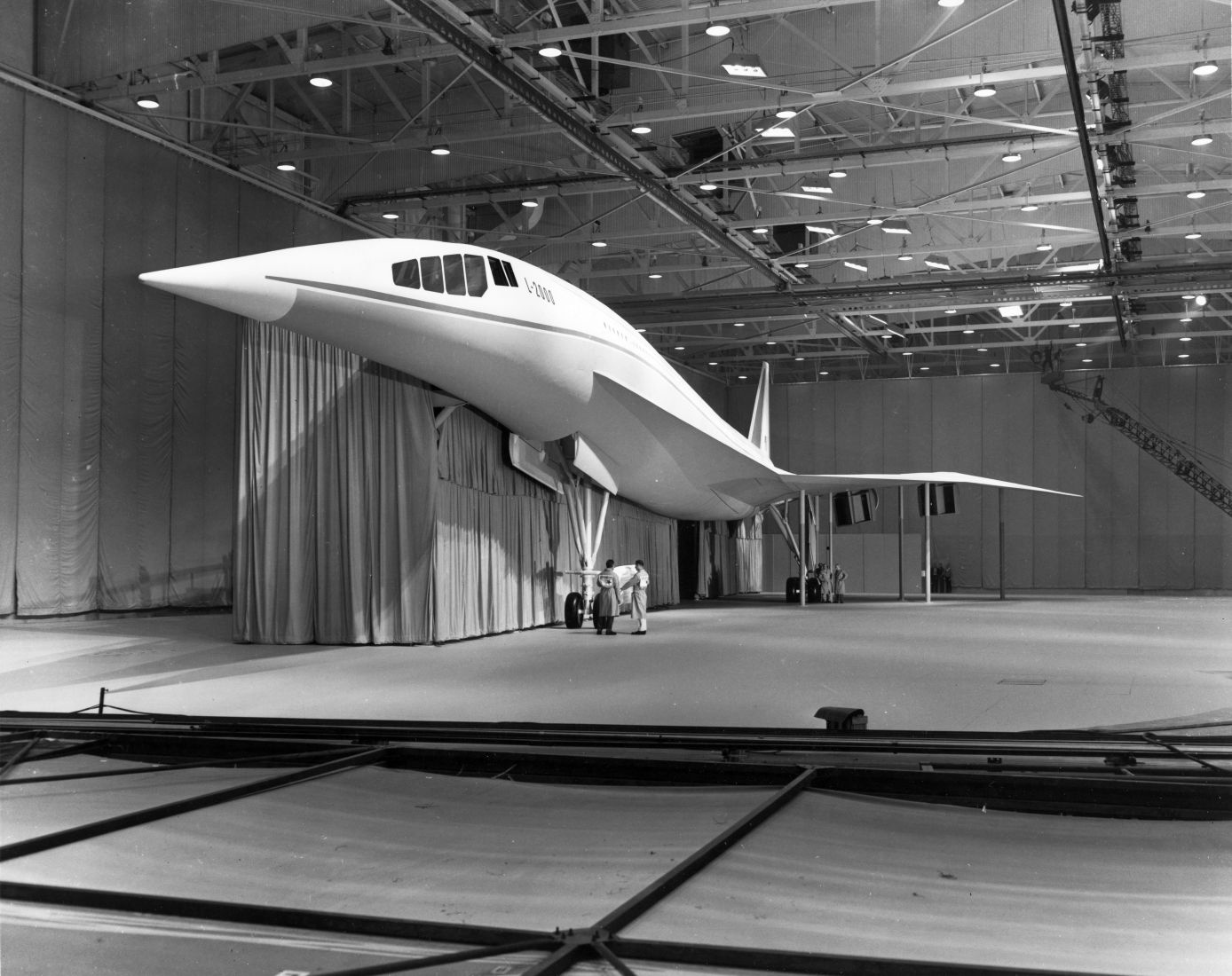 Lockheed L-2000-7 full-scale mockup (SST). SDASM image #01_00092569.